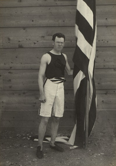 1896 Summer Olympics. James Connolly, American athlete and first modern Olympic champion